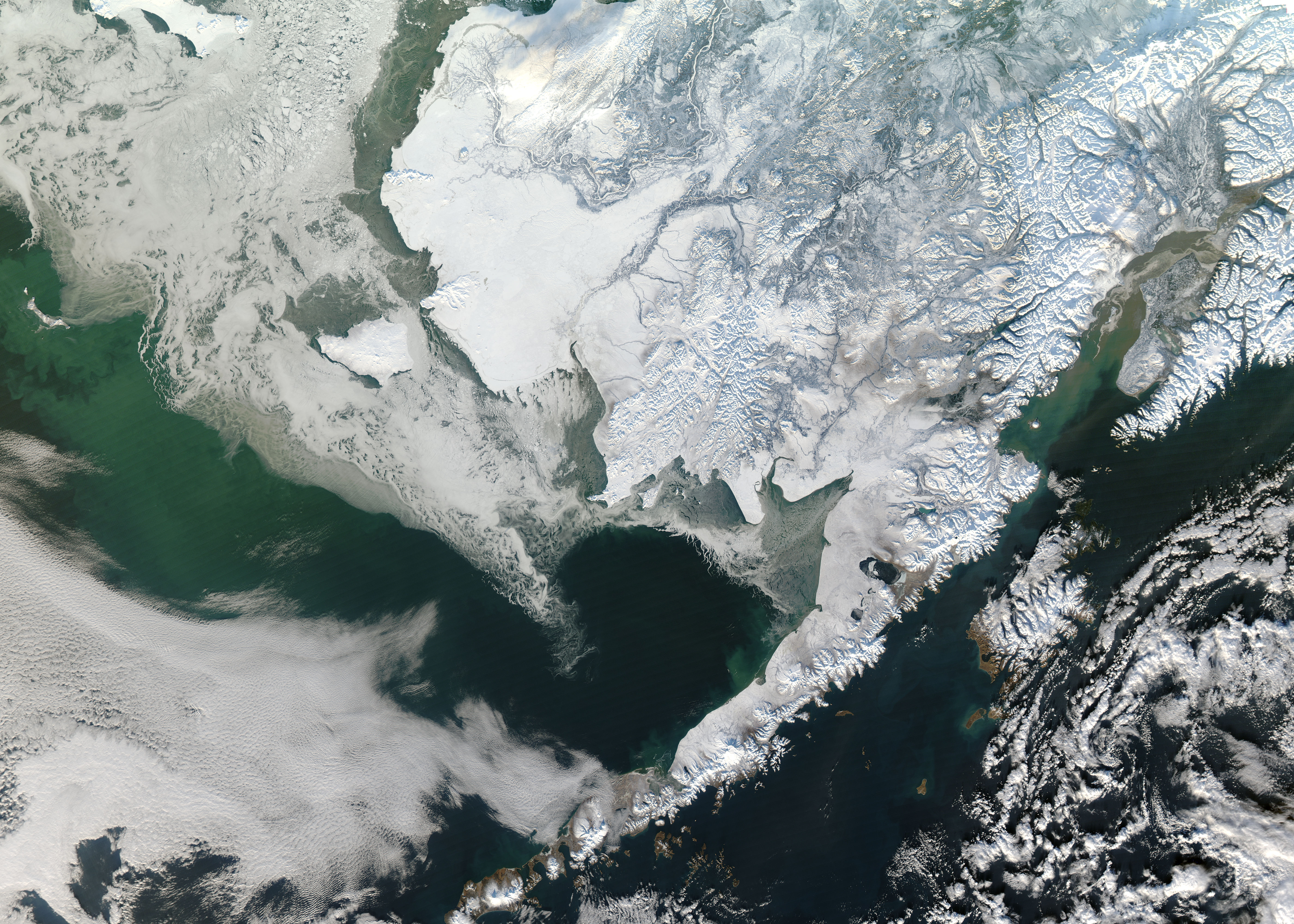 From an altitude of 705 kilometres, the biting cold and snowy hassle of winter melts away and is replaced by minimalist beauty. The clouds that normally shroud much of the Arctic clears to unveil a snow-bound Alaska. On the ground, snow is an equalizer: It covers everything uniformly in a blanket of white. But from space, snow is a revealer. Subtle variations in colour and texture highlight Alaska’s rugged topography and primary ecosystems. Inland, the vast boreal forest is dark, coloured by evergreen trees that shed snow from their tall, conical forms. The treeless tundra, on the other hand, is bright white. The low shrubs and mosses on the tundra—along the coast and above the tree line in the mountains—do not break through the snow, so the landscape is an unrelieved white except for the slender rivers winding across the landscape. Winter white extends to the ocean. Land-bound ice swells the coast, temporarily claiming the ocean for the land. The shadow of the summer coastline, where land meets sea ice, traces a faint outline—a hint of gray—between stark white sea ice and equally white coastal tundra. A brown and green channel of semi-open water separates the continent from the ice-choked Bering Sea. Moving away from land, ice creeps across the open sea in wisps and curls that resemble foamy froth. Beyond the clutches of ice, the Bering Sea shows signs of turbulence and the dark waters swirl with vibrant green. Such colour often points to phytoplankton, but this burst of colour could also be sediment brought to the surface by powerful waves spawned by winter storms. The view spans about 980 km (610 mi) north to south, centred on a latitude of c. 59° N.